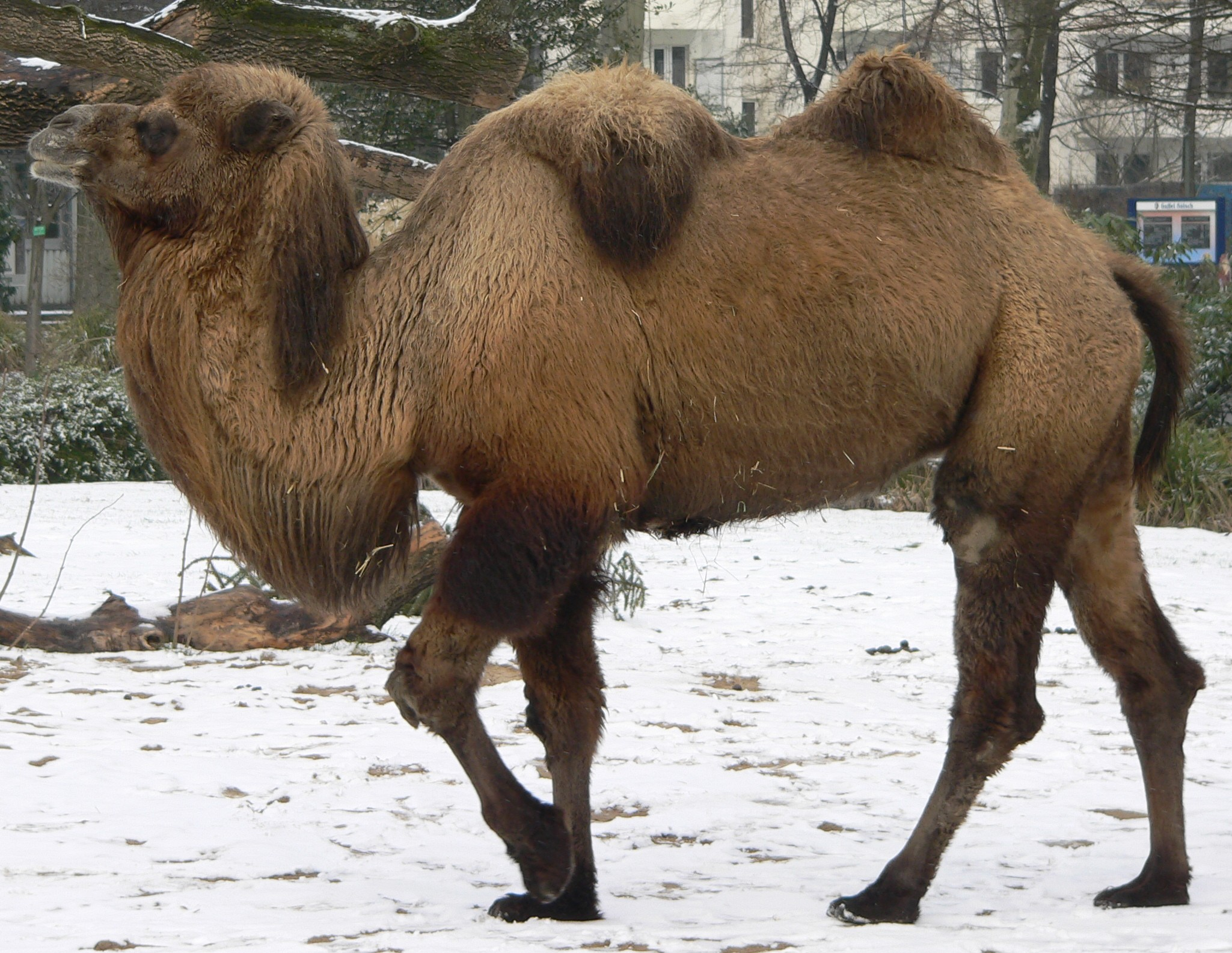 Bactrian Camel in Cologne Zoo.